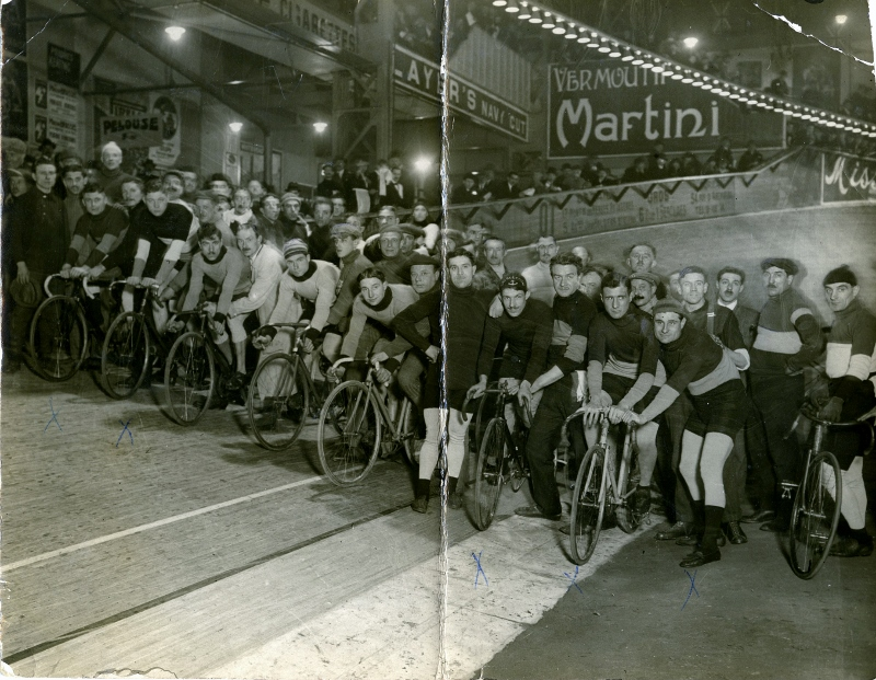 Photo at start of Six Days of Brussels in january 1921. The cyclists at the second bike from the right are the later winners : Marcel Berthet at the bike and Charles Deruyter right from the bike.